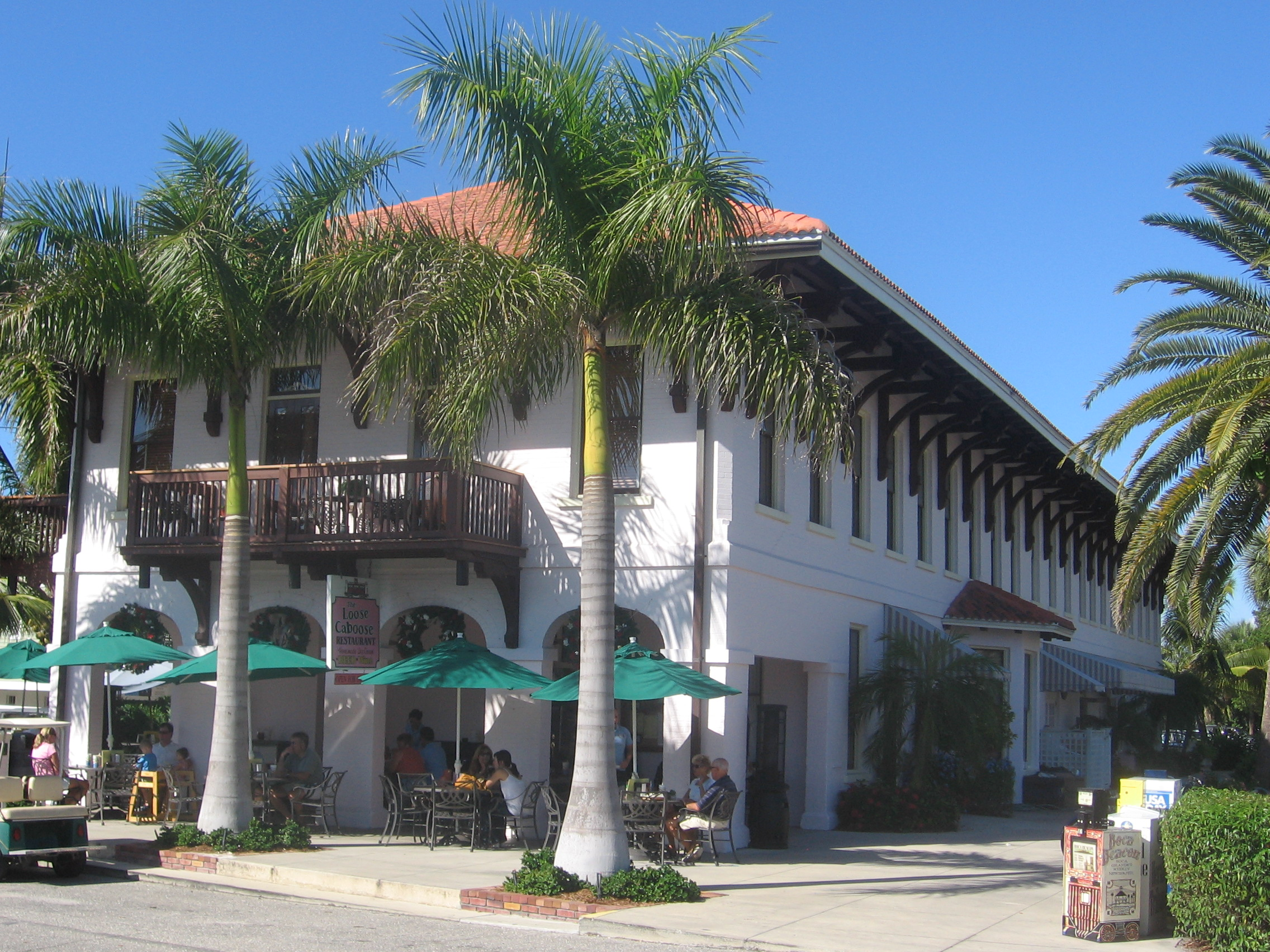 Old railroad station, Boca Grande, Florida Taken by me November 2007